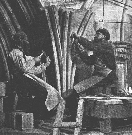 Stonemasons working on the vault of Nidaros Cathedral, Trondheim, Norway. c. 1920.